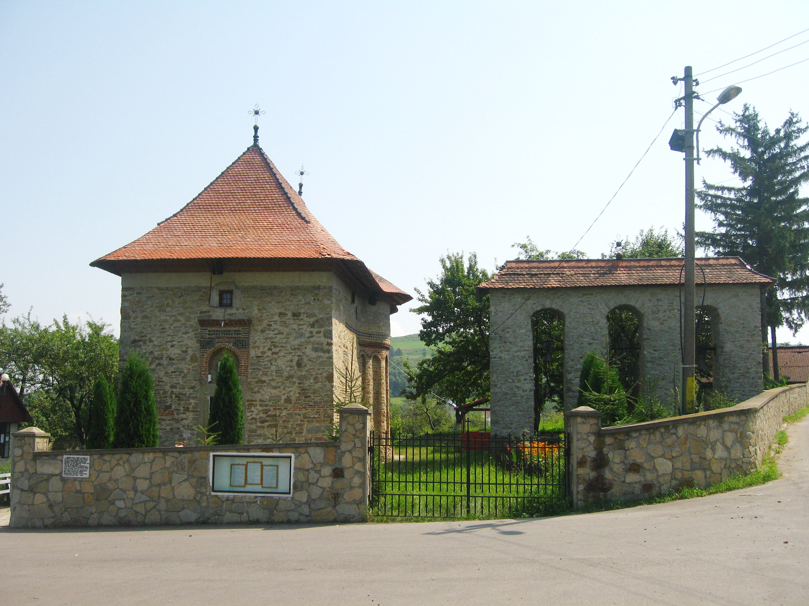 Biserica Sfânta Treime din Siret